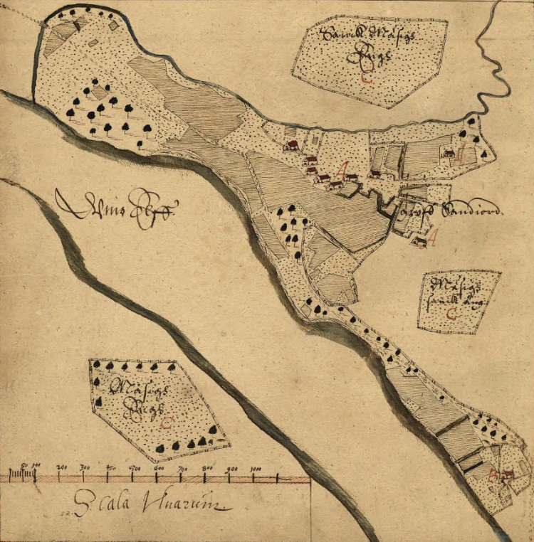 Map of Ytterhiske village in Umeå, Sweden, from 1642.